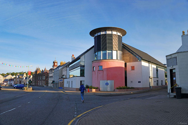 An Lanntair The Stornoway arts centre, 'An Lanntair' with Kenneth Street on the right and South Beach on the left.